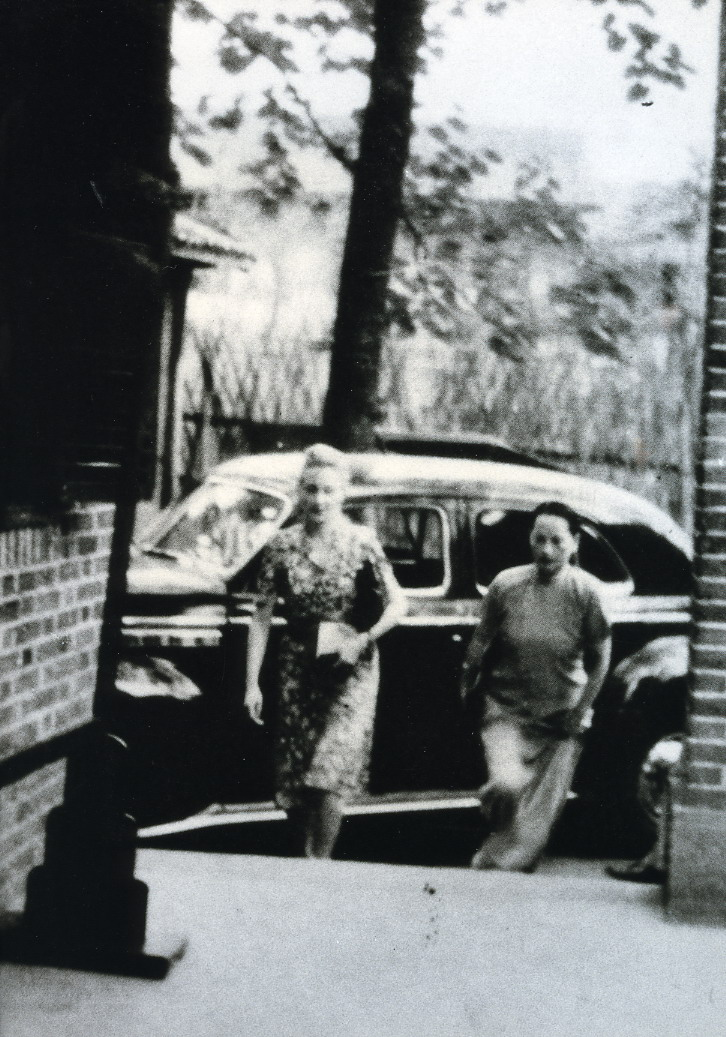 Soong Ching-ling and Anna Wang(a.k.a Anneliese Martens) visited Mao Zedong